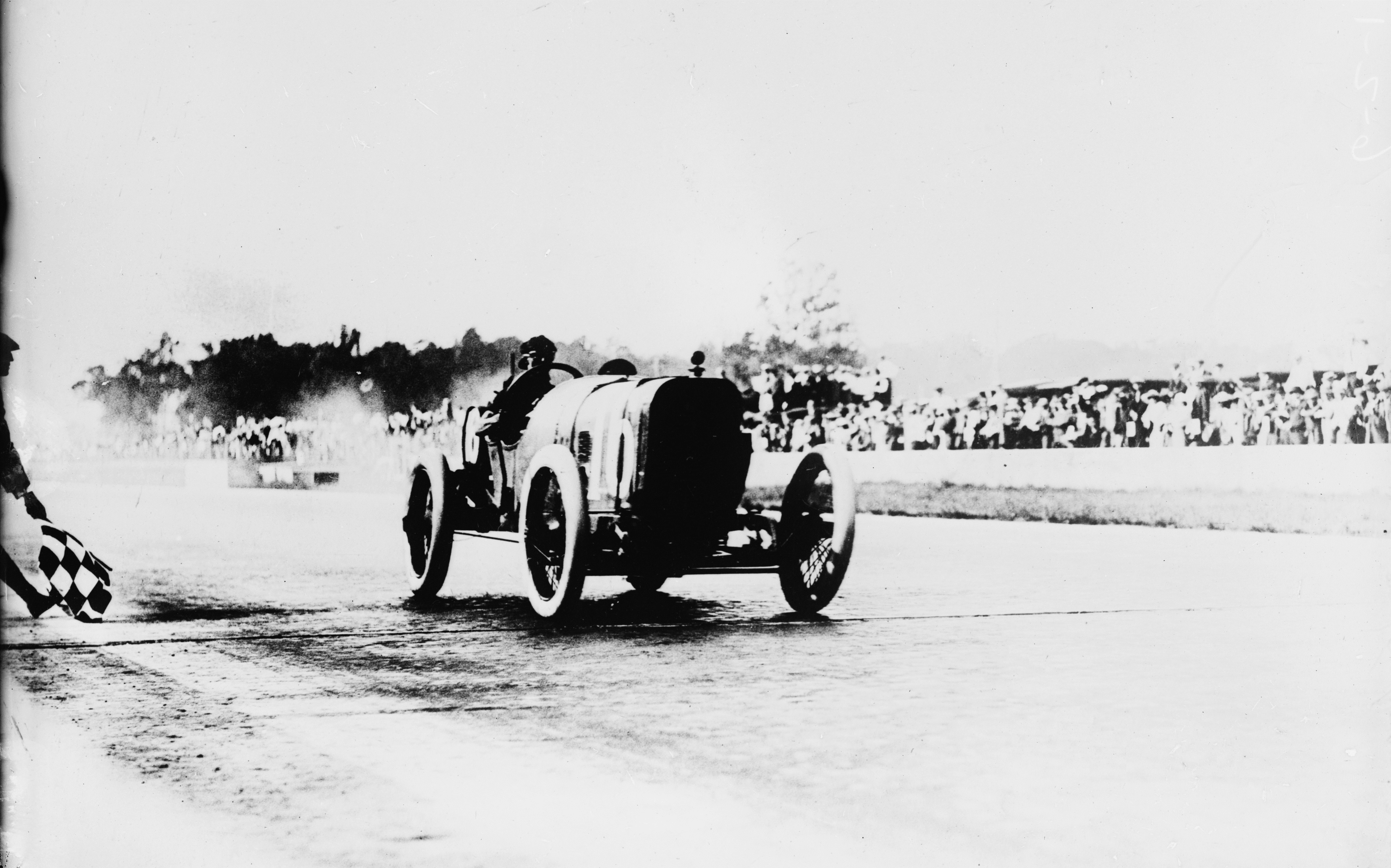 Jules Goux, Indianapolis 500 Winner, 1913